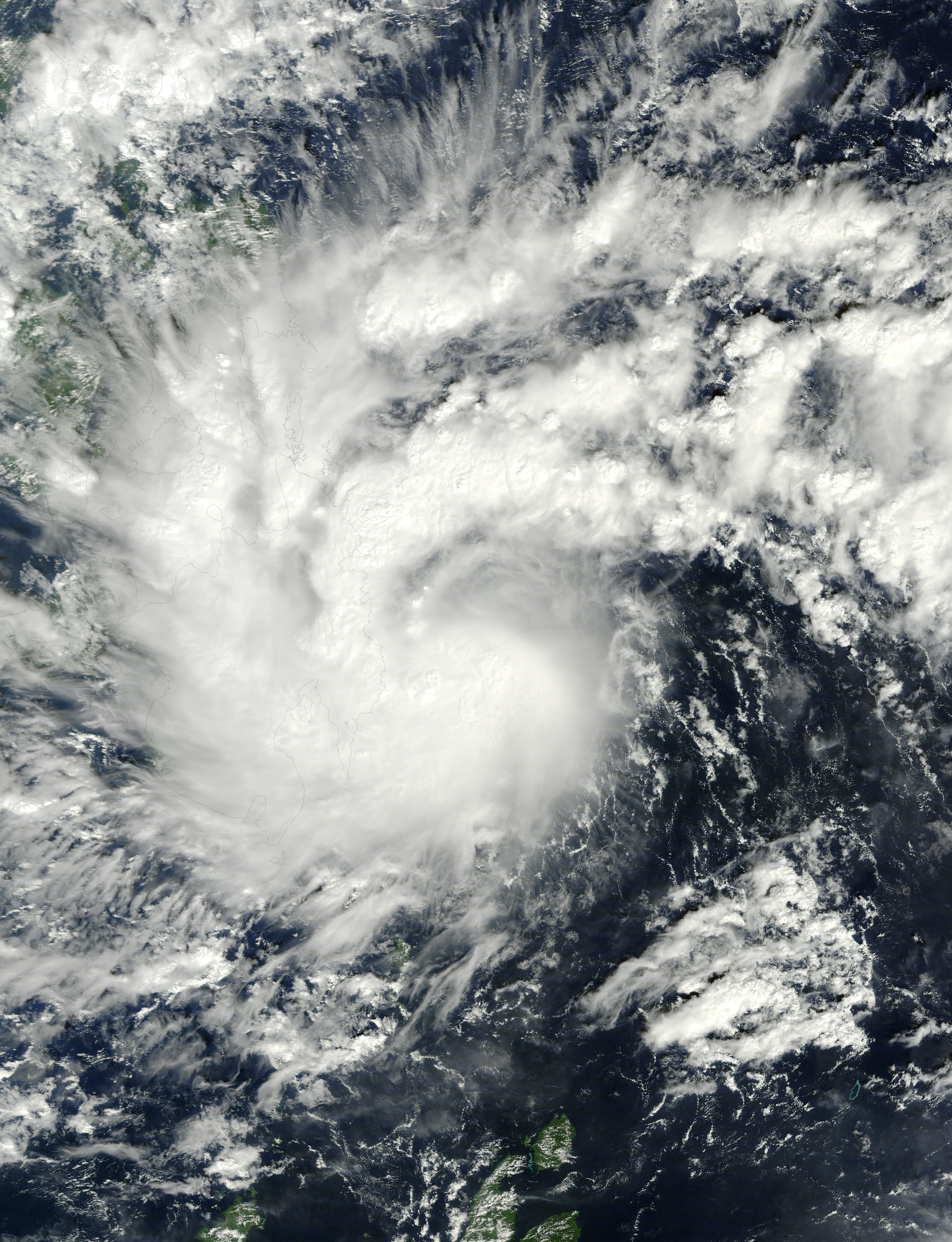 Severe Tropical Storm Washi (Sendong) over Mindanao on December 16, 2011, several hours before making landfall.